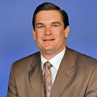 Austin Scott, member of the United States House of Representatives.